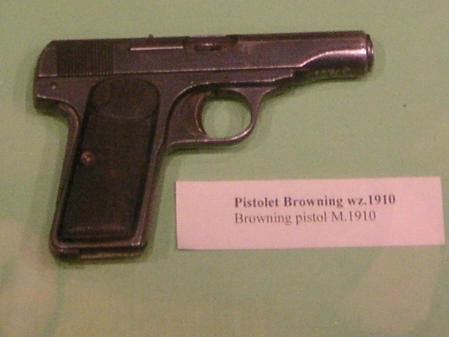 made during a summer day in Warsaw's Museum of the Polish Army; Excellent Belgian M1910 Browning pistol, known as wz. 1910 Browning in Poland, where it was one of standard officers' sidearms in the interbellum